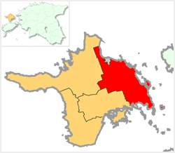 Location map of Pühalepa Commune, Estonia. This image was created by Senzeichi.